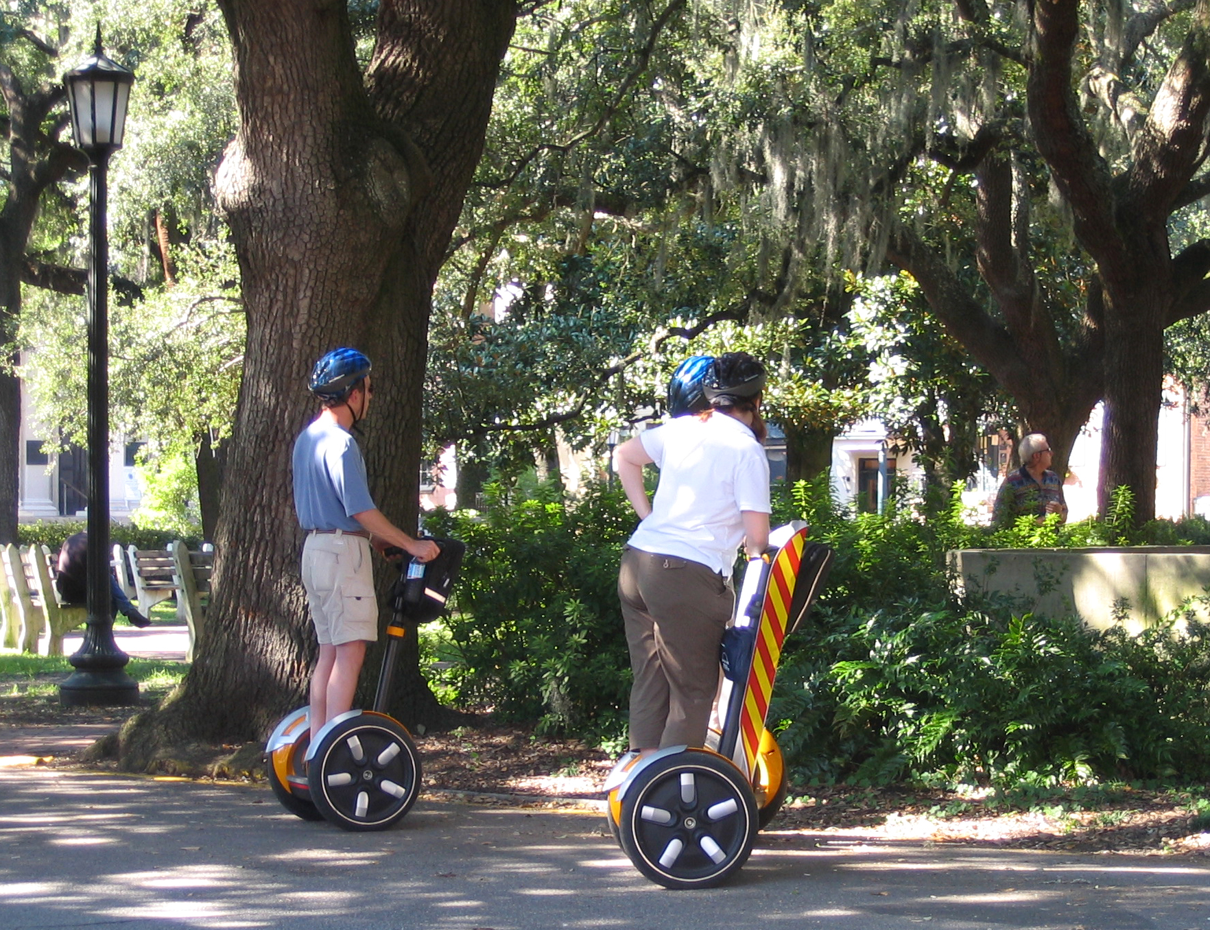 Segway tour at Chippewa Square, in Savannah, Georgia. Photo taken by Kmf164 on September 10, 2005.